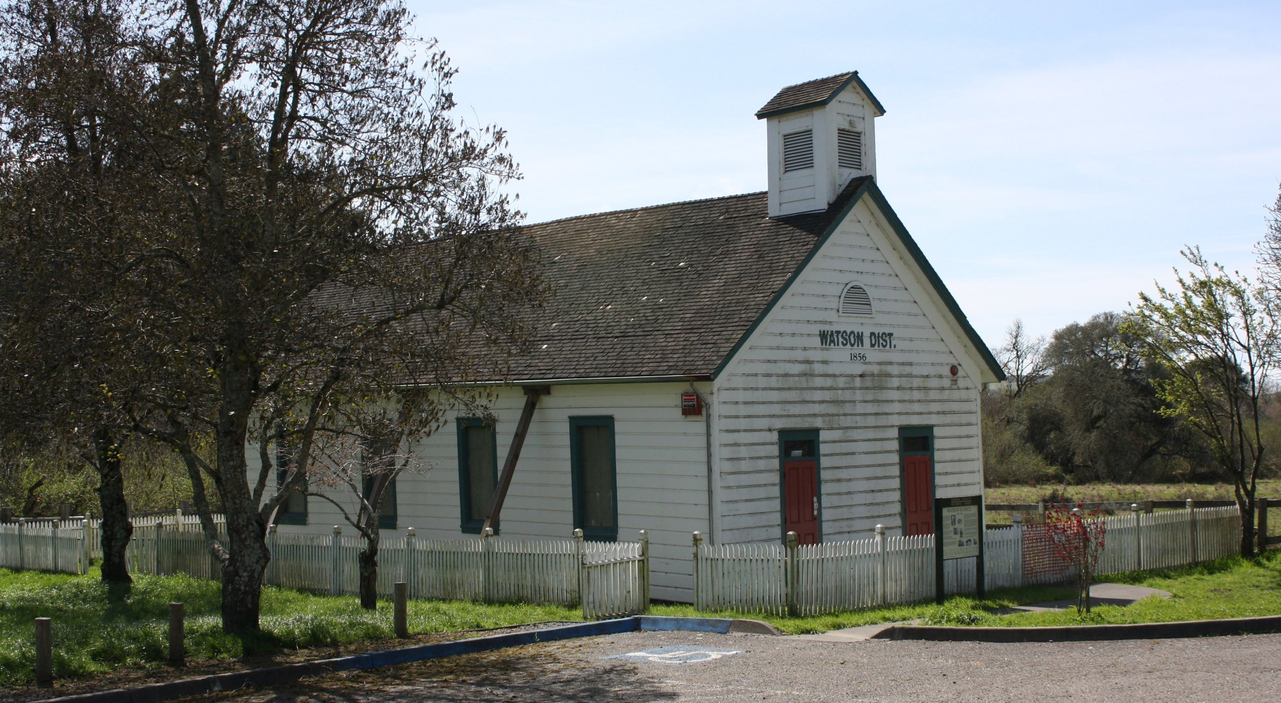 Watson School, one room schoolhouse, Bodega, Sonoma County, California